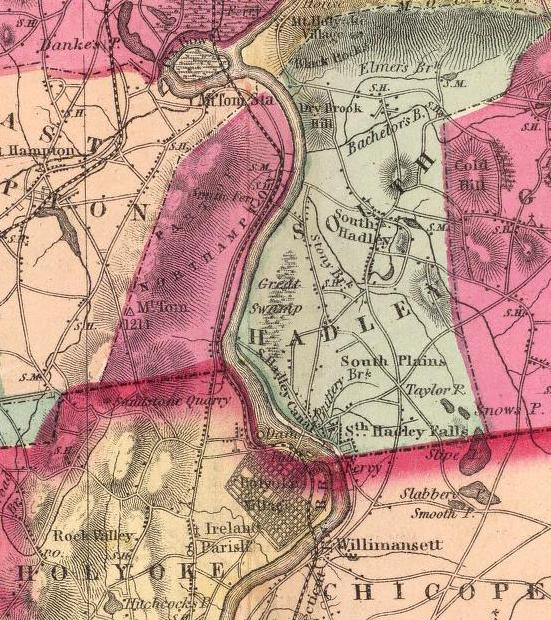 Map of South Hadley Canal and environs, South Hadley, Massachusetts, USA.